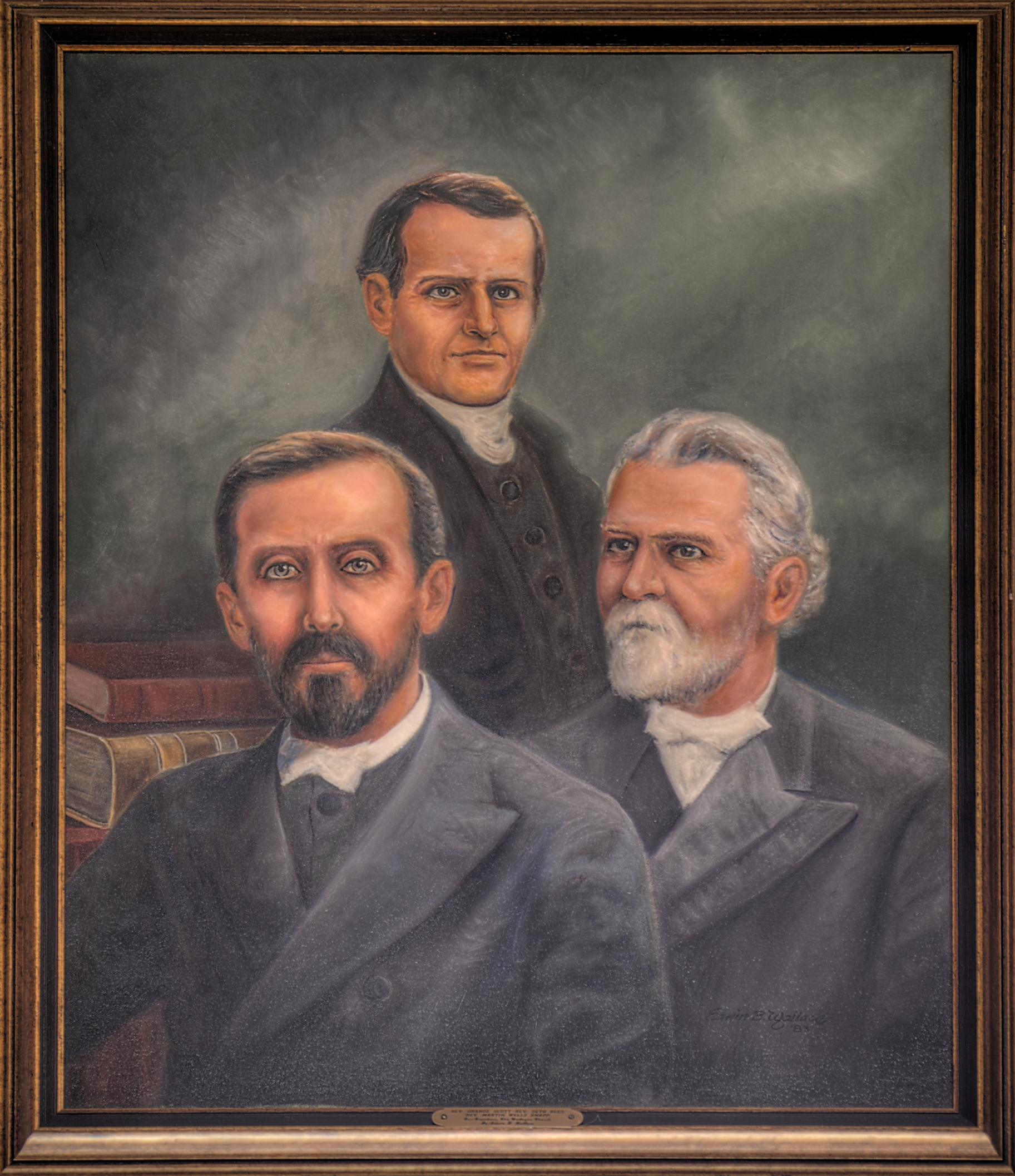 Martin Wells Knapp (1853 - 1901), left; Orange Scott (1800 - 1847), middle; Seth Cook Rees (1854 - 1933), right; Co-founders of the Wesleyan Church